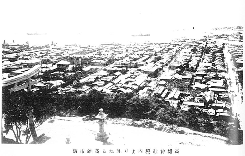 Takao-jinja (高雄神社)